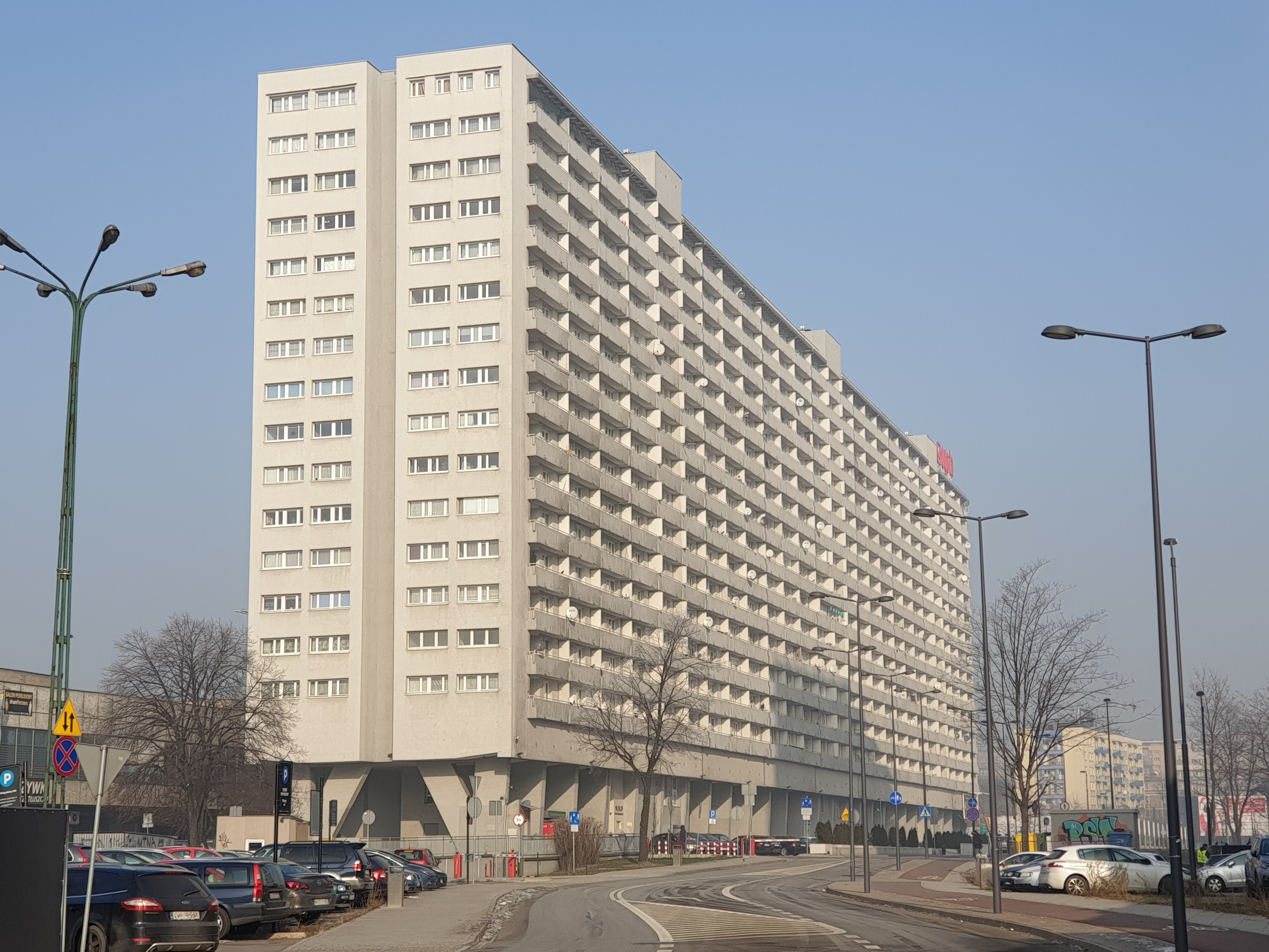 Superjednostka (Katowice, Poland, JAN 2019).